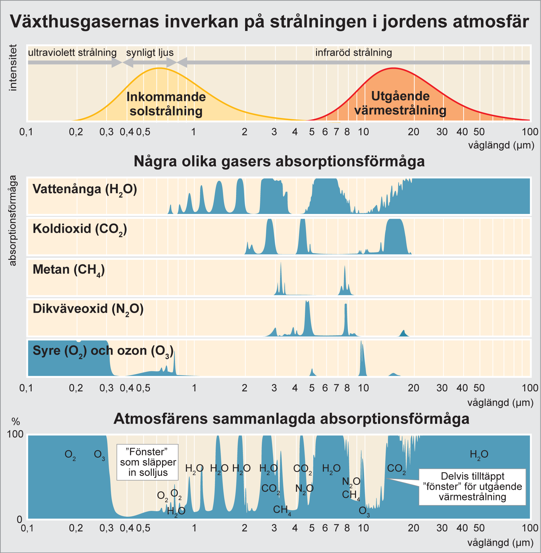 The influence of greenhouse gases on radiation in the Earth's atmosphere.